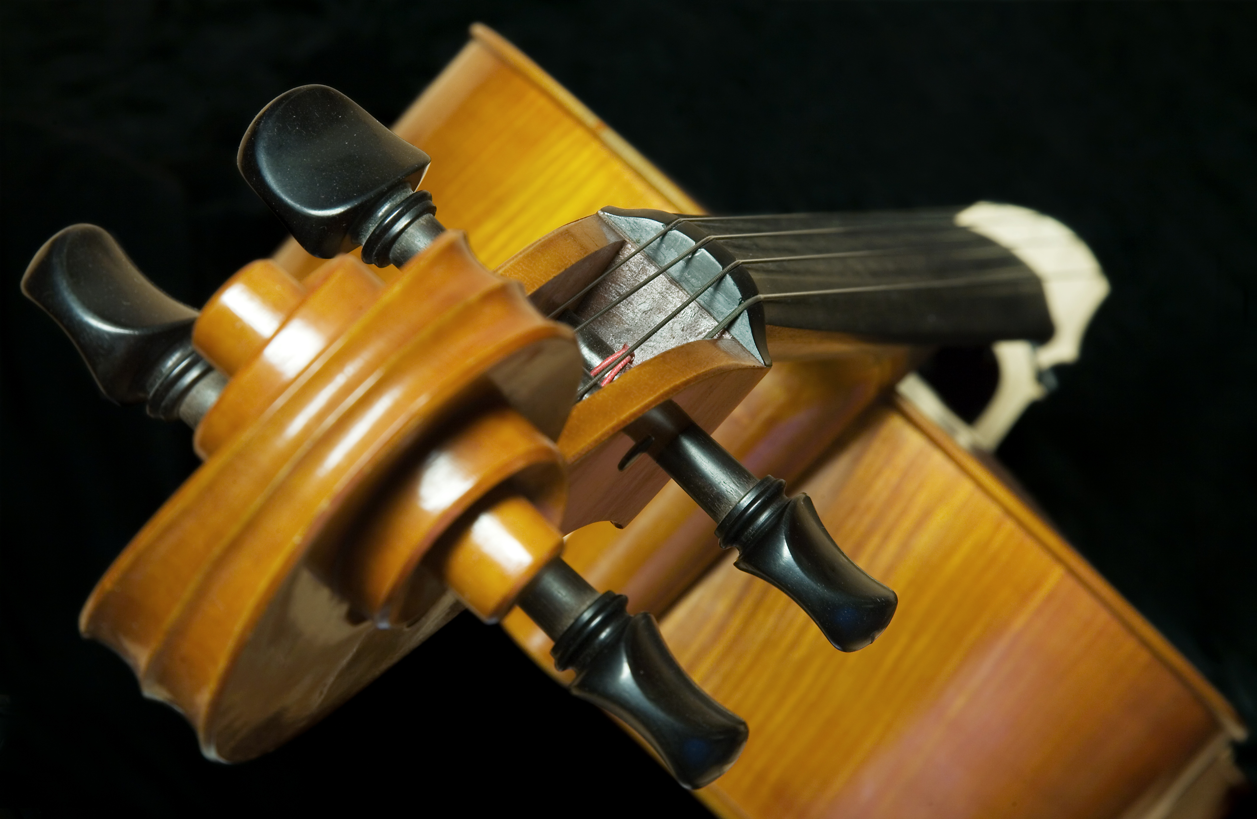 Details of a cello neck, the pegbox and the scroll.